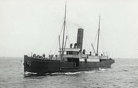 Douglas (III)